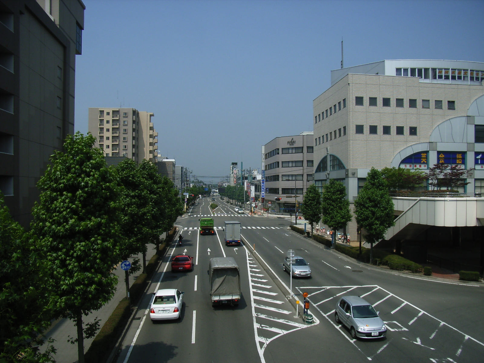 Miyagi Prefectural Road 35. Sendai, Miyagi prefecture, Japan. South of the Izumichūō Station.